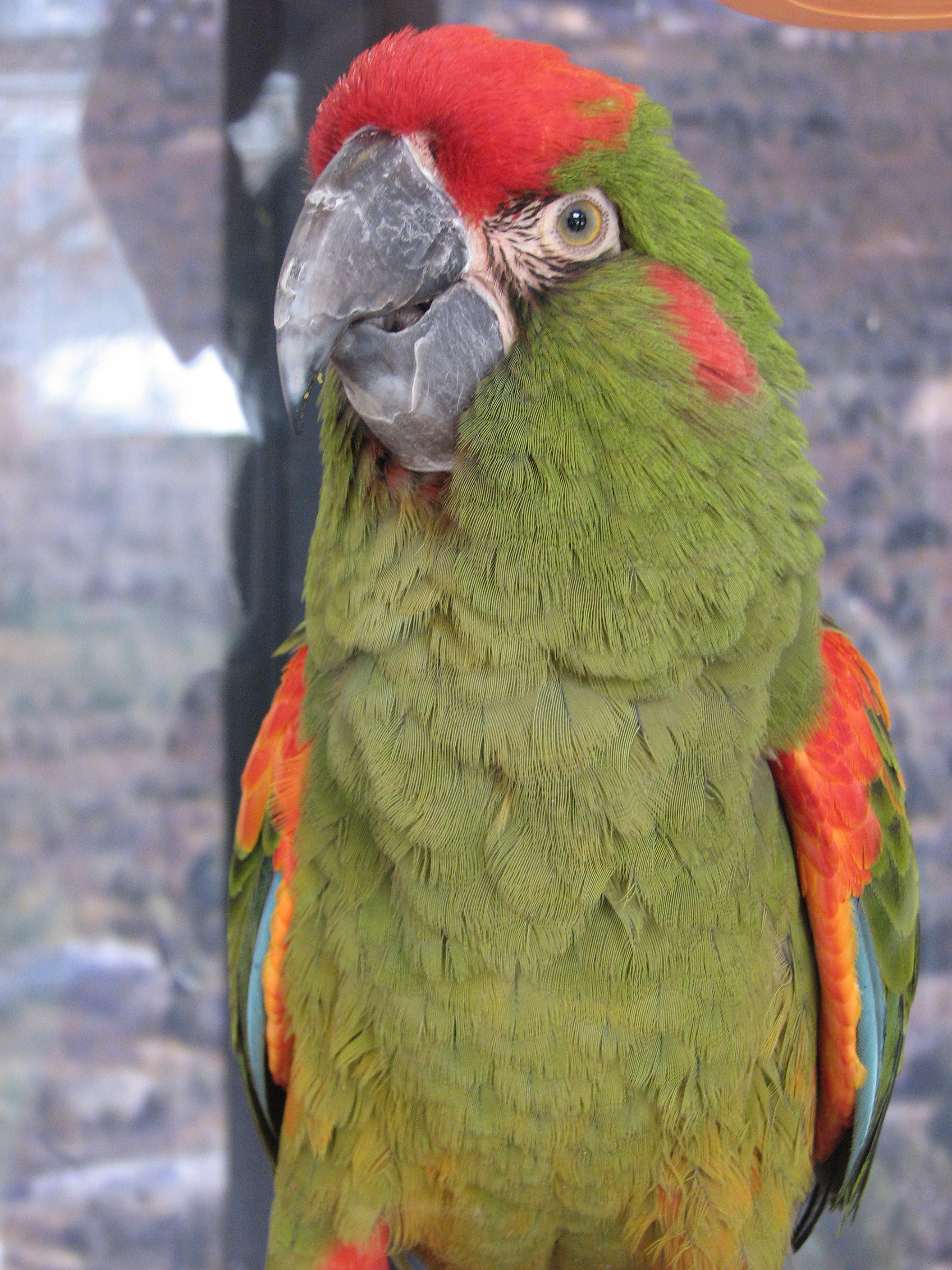 A photograph of a Red-fronted Macawen (Ara rubrogenys en ). Photo taken at the National Aviary.